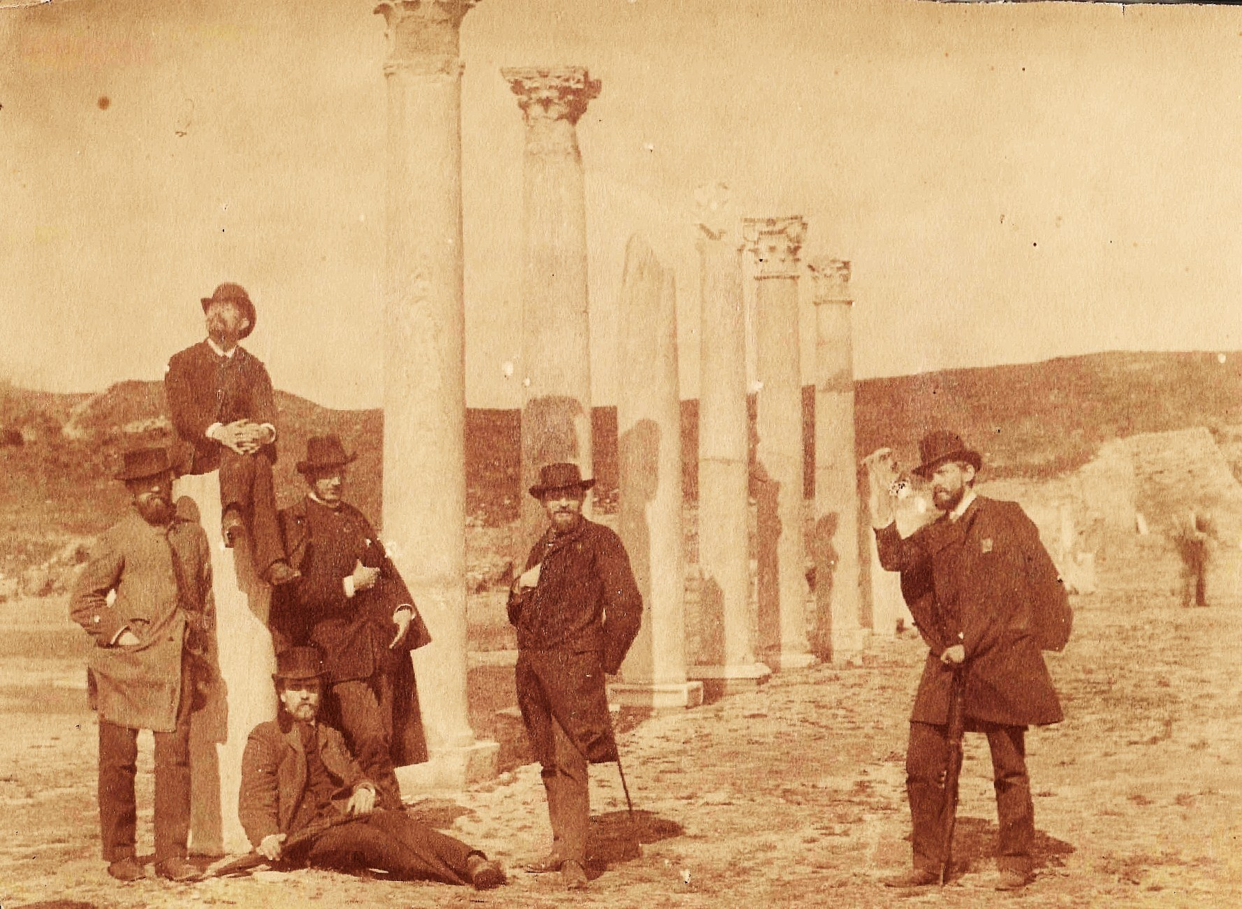 Russian architects in the Pompeii, 1880s. From archive of descendants of Sergey Ustinovich Solovyov (in the center of photo).